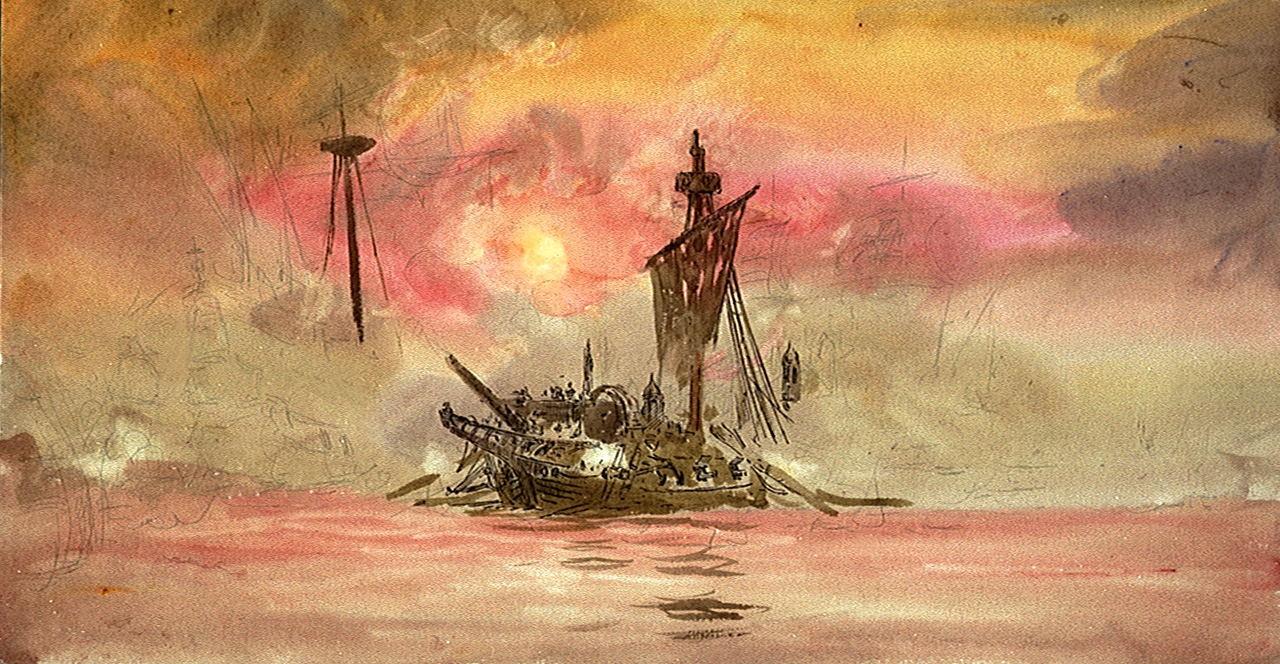 Battle, 1500 AD Medium includes graphite and pen and ink.